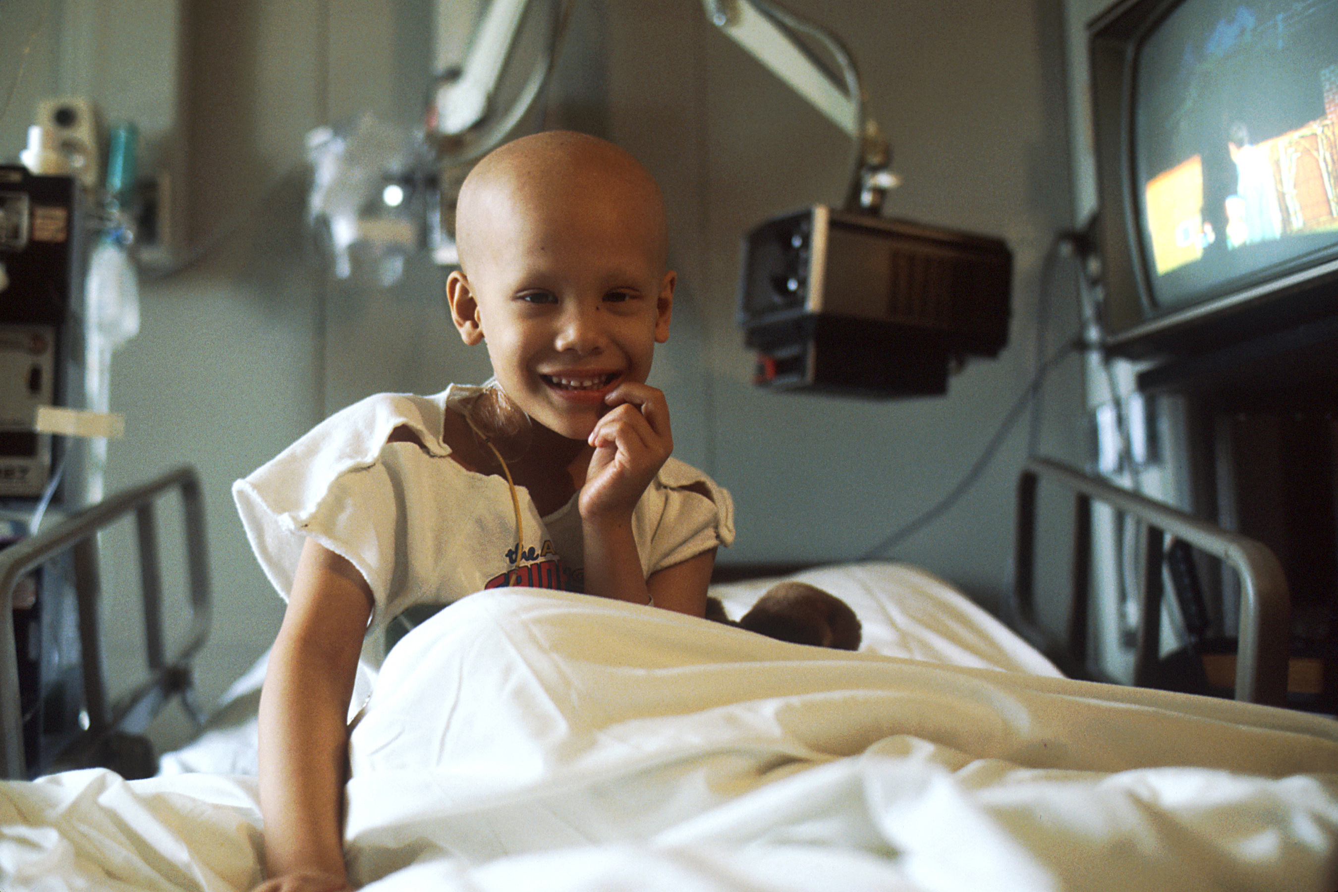 Title Young Girl Receiving Chemotherapy Description A young Caucasian girl receiving chemotherapy. Topics/Categories People -- Child Treatment -- Chemotherapy Type Color, Photo Source National Cancer Institute